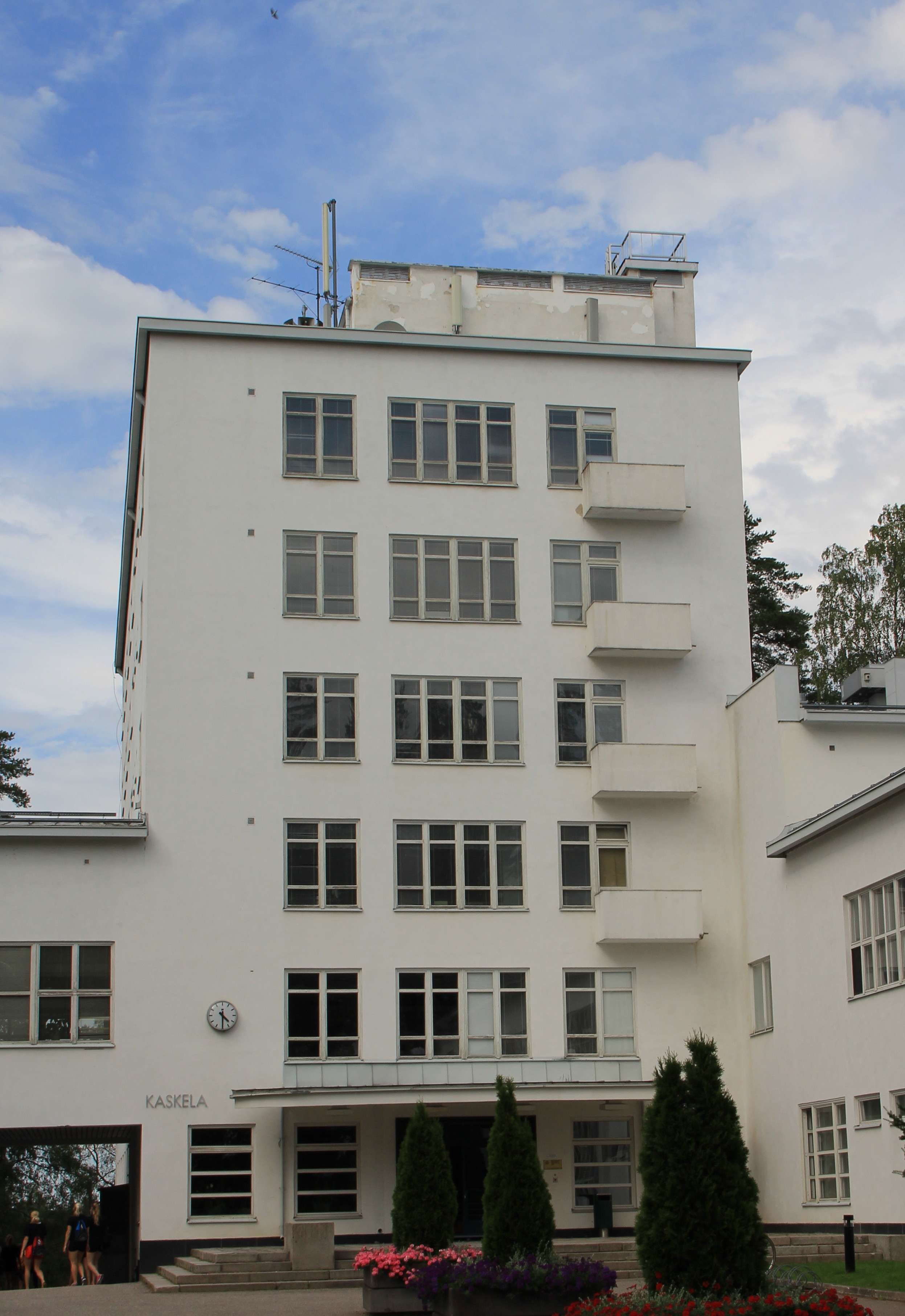 Sport Institute of Finland in Vierumäki, Heinola, Finland. Main building, main entrance. Designed by architect Erik Bryggman, completed in 1936.